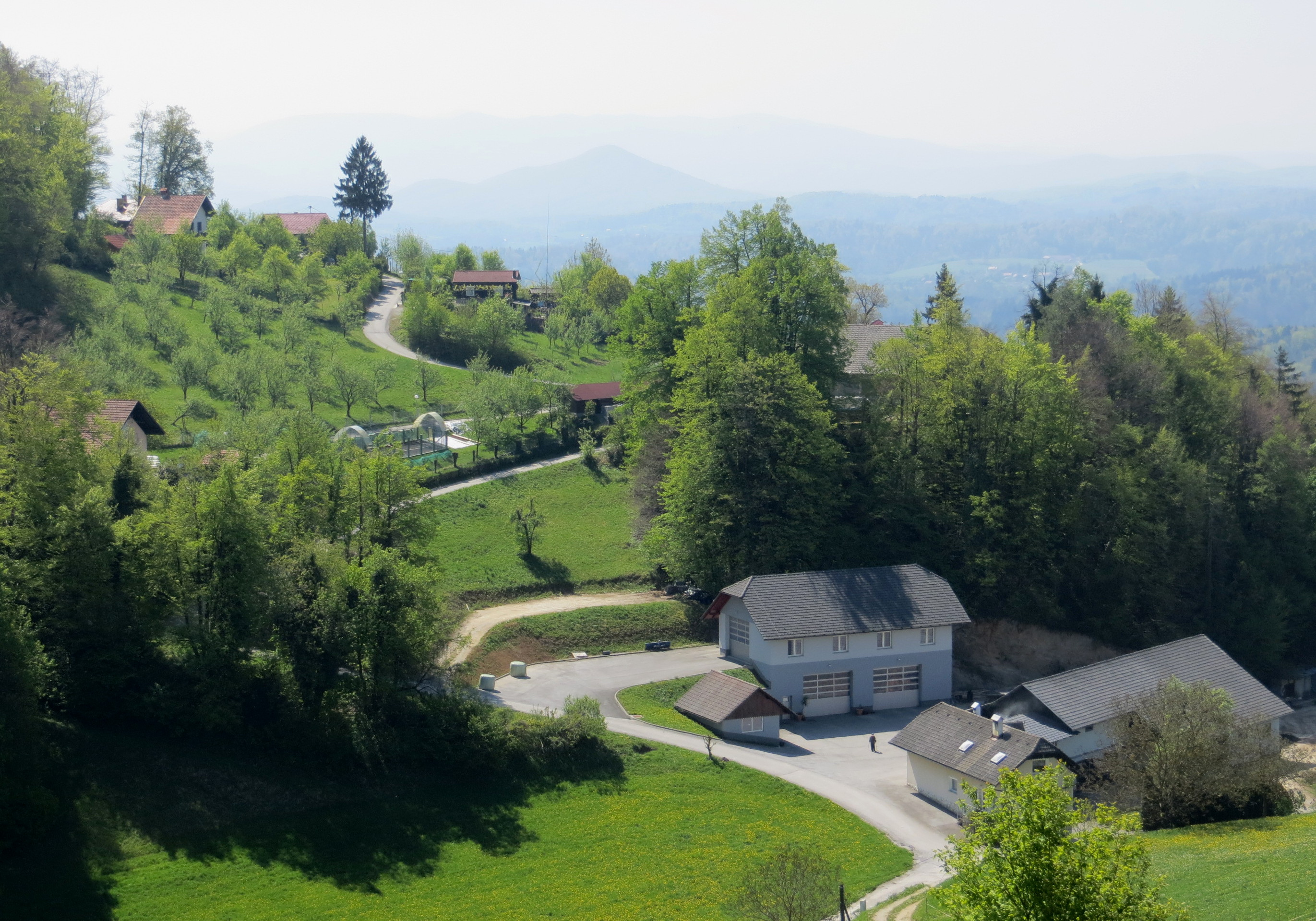 Razbore, Municipality of Trebnje, Slovenia